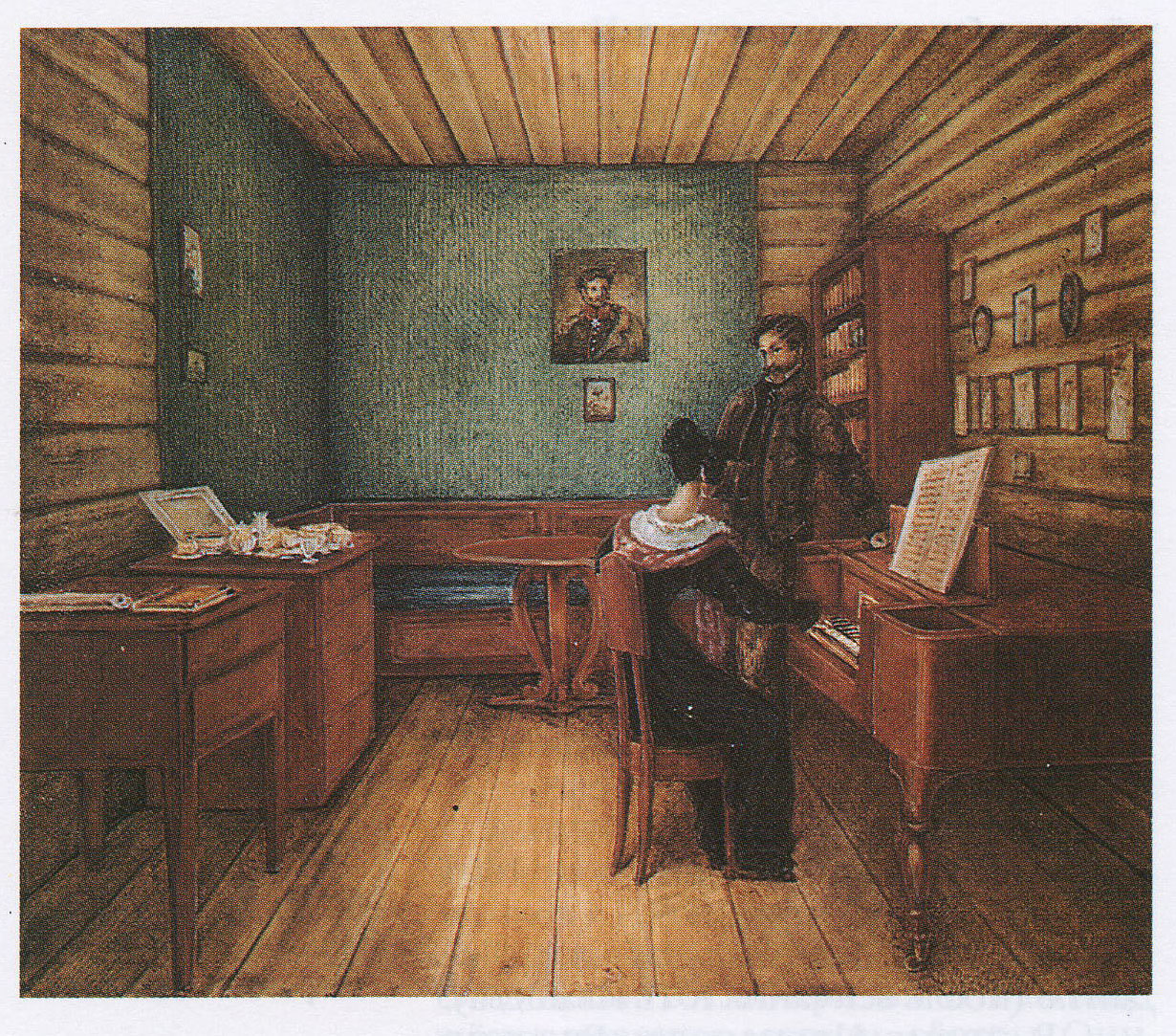 Bestuzhev N. Sergey Volkonskiy and Maria Volkonskaya. 1830.